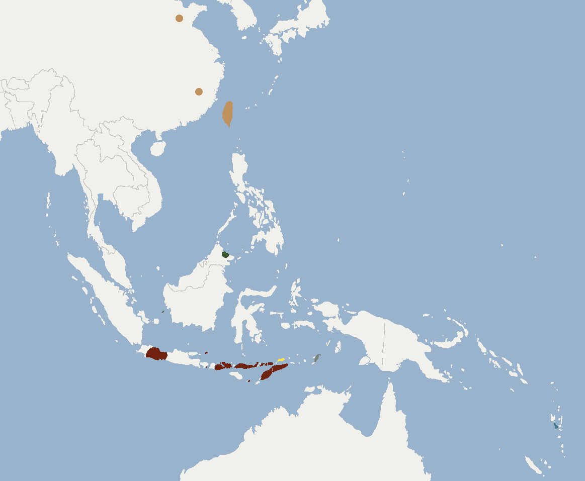 According to Kitchener & Al., 1995 Subspecific range in different colours